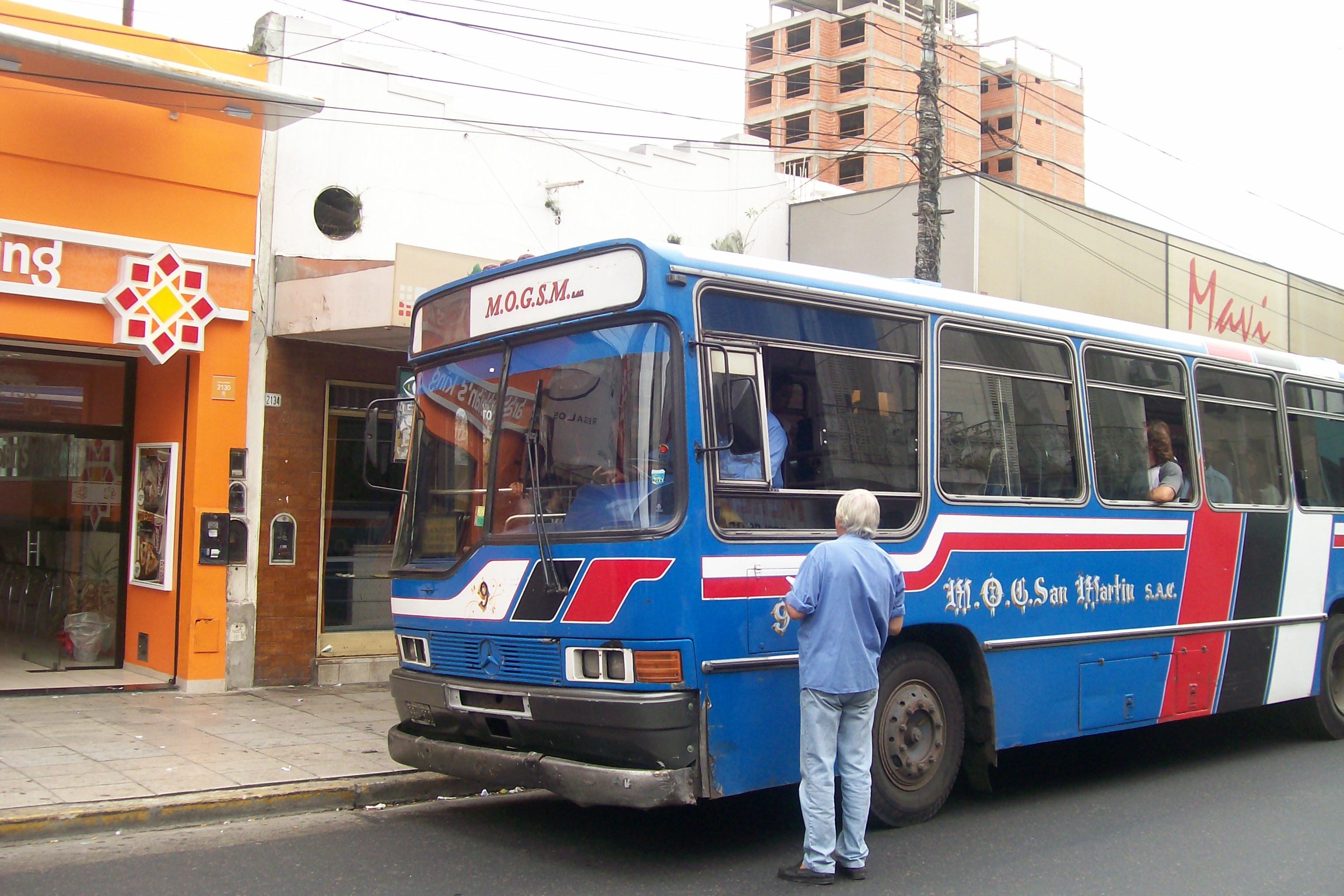 Bus (#9) with Mercedes-Benz chassis in Buenos Aires or Buenos Aires Province, Argentina. Colectivo, line 670, Micro Omnibus General San Martín S.A.C. operator.